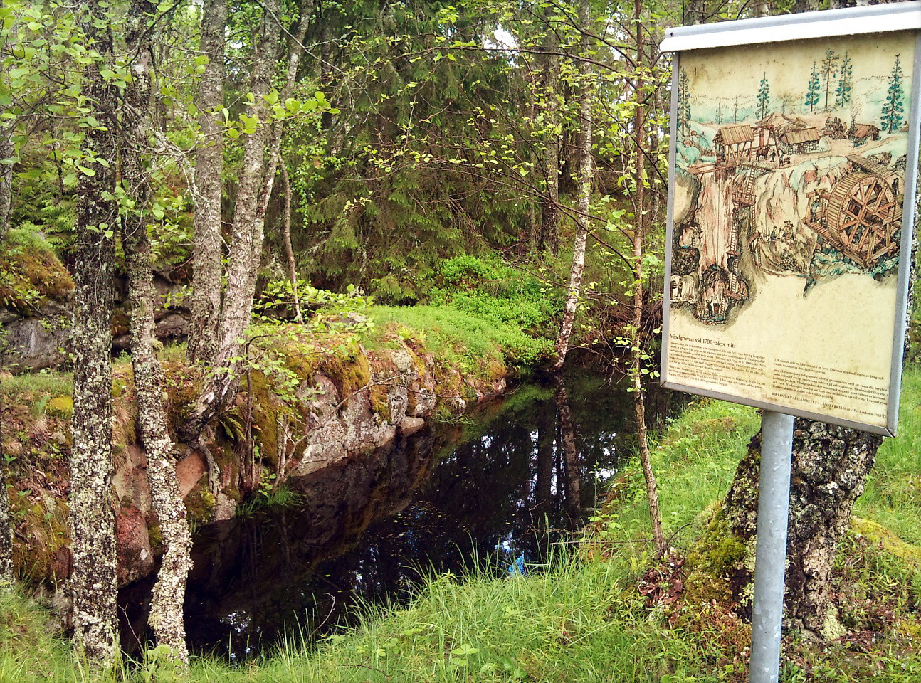 Wind mine, a part of the so-called Järna mines outside of Järna on Sörmlandsleden.